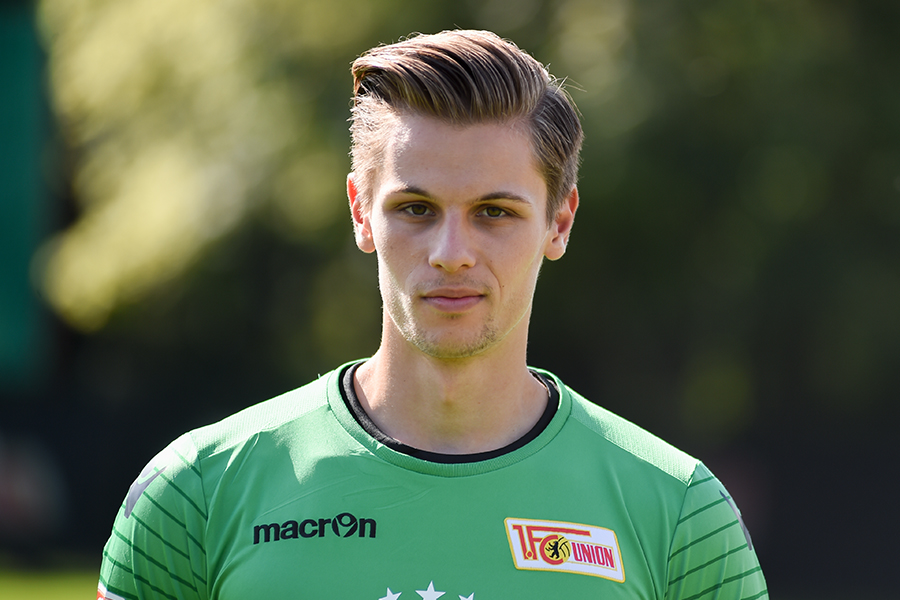 Teamfoto 2016/17